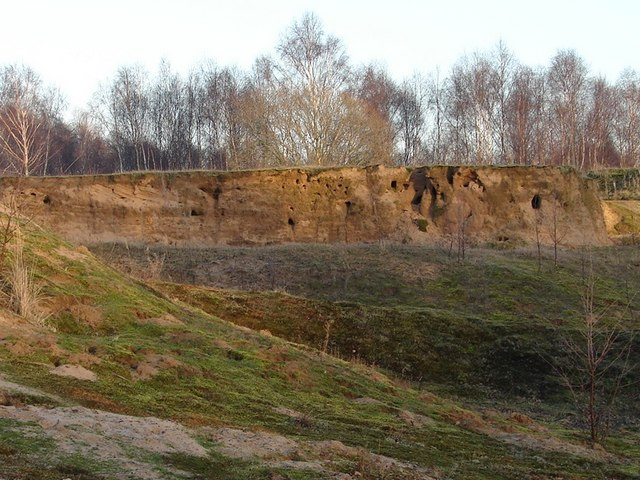 Sand Martin Colony, Whisby Nature Park. This sandbank has been occupied by sand martins since before the nature park was established. Their nest holes are easily visible in this shot. Today was slightly early in the season to spot any as they are on vacation in Africa at this time of year. Before the birds return, the nature reserve staff scrape away a new face of sand for the birds to burrow in as the winter weather erodes the previous season's nest holes.